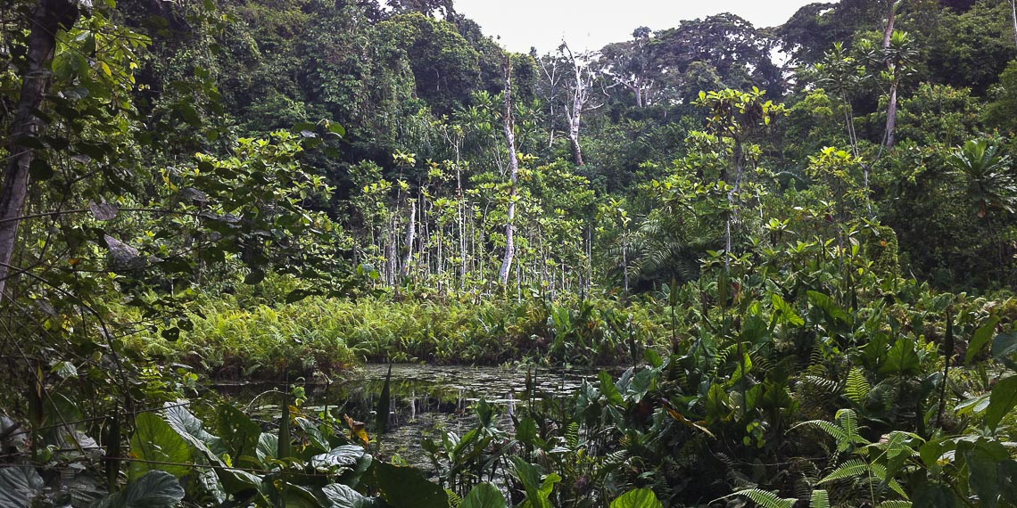 Iphone photo